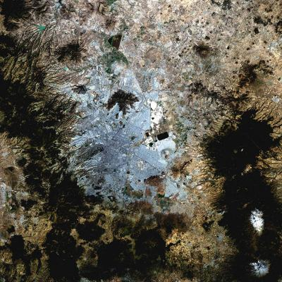 Large satellite photo of Mexico City - taken on Landsat 7